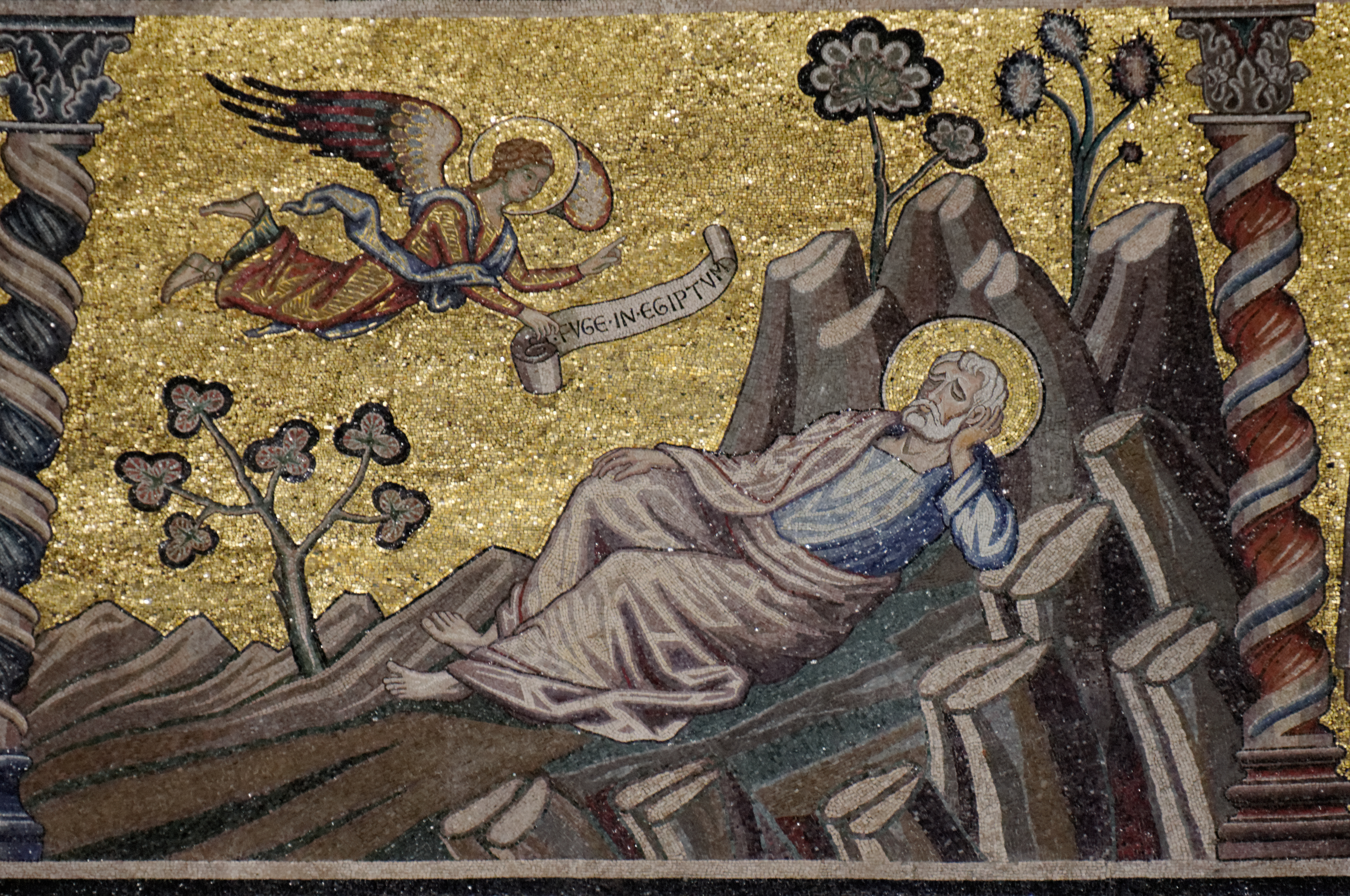 Scenes from the life of Christ on the ceiling: the dream of St Joseph.